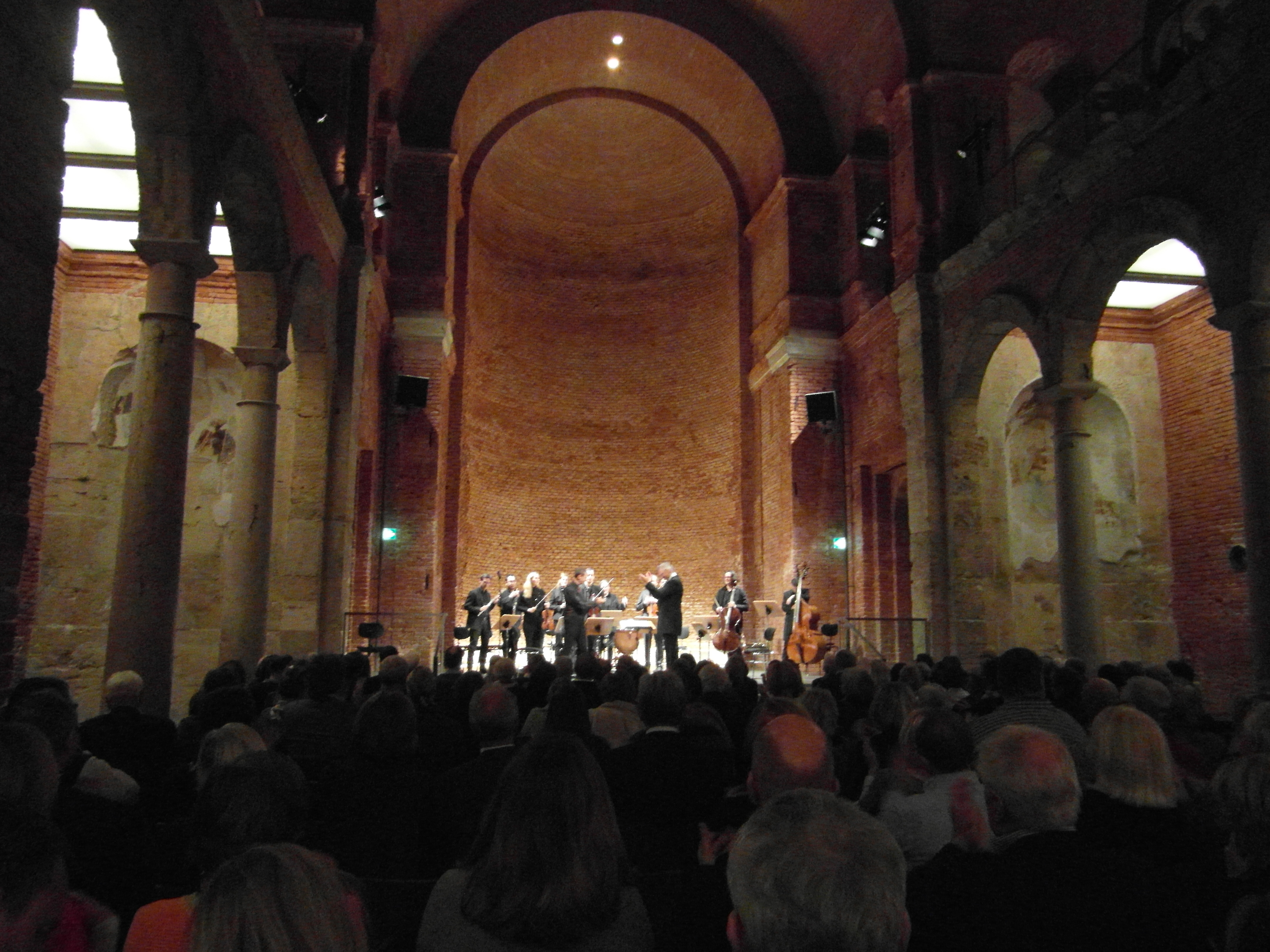 the ensemble die taschenphilharmonie in concert at the Allerheiligen-Hofkirche of the Munich Residenz, with composer Graham Waterhouse (left) and conductor Peter Stangel